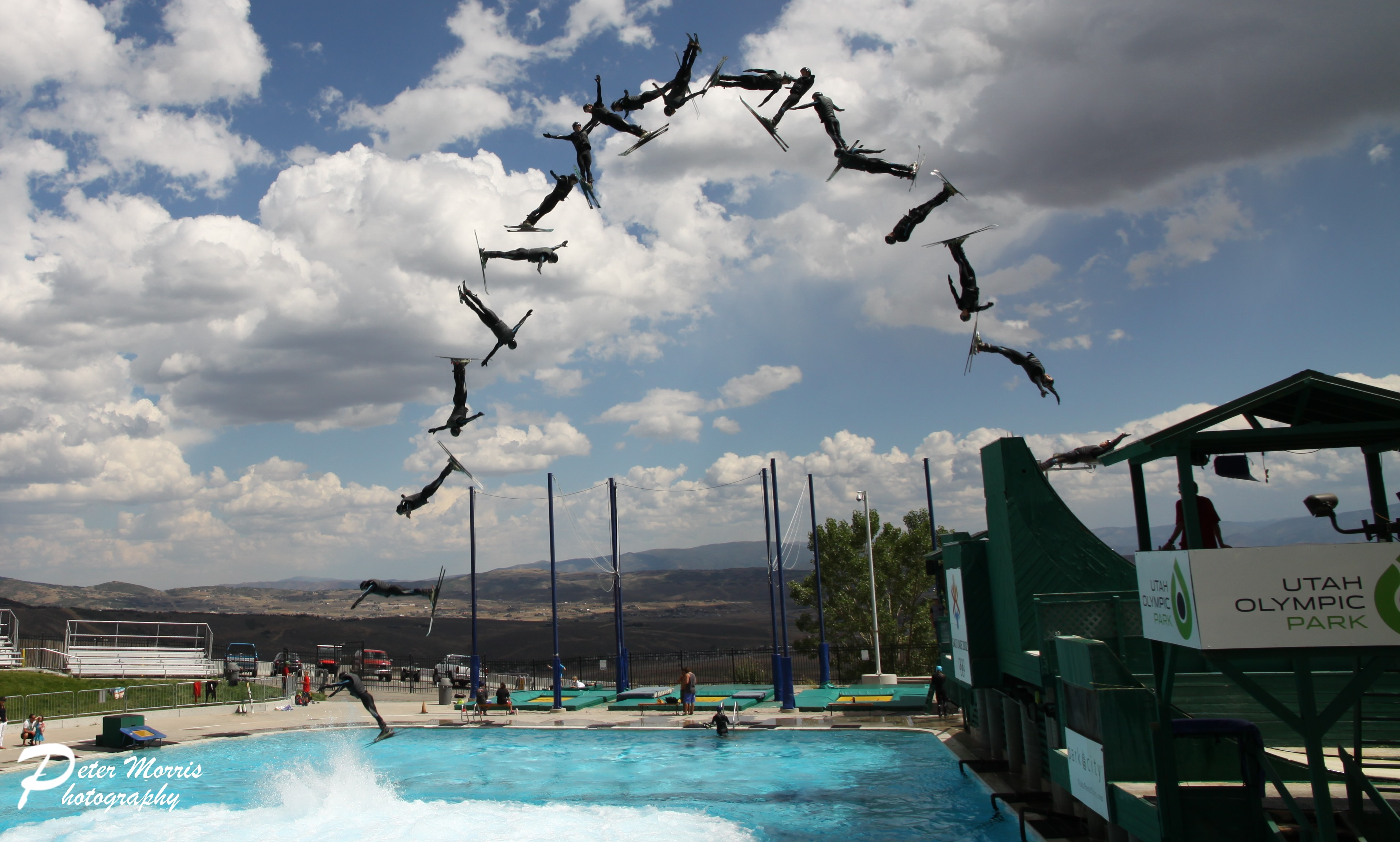 David Morris Aerial Ski training at Utah Olympic Park, Park City, Utah. Multi shot by Peter Morris. Compliation of skier in the air and landing into swimming pool